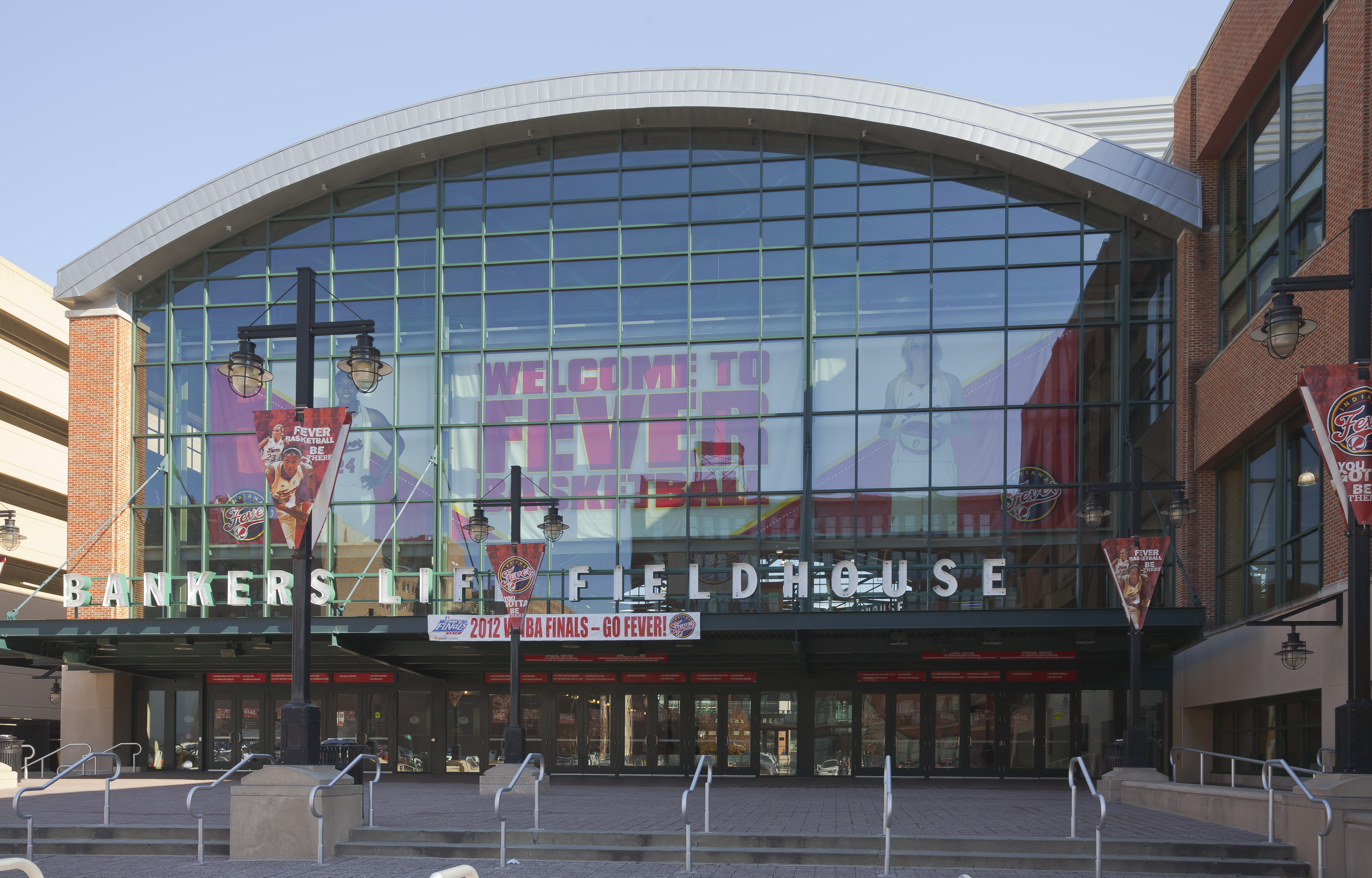 Bankers Life Fieldhouse, Indianapolis, USA